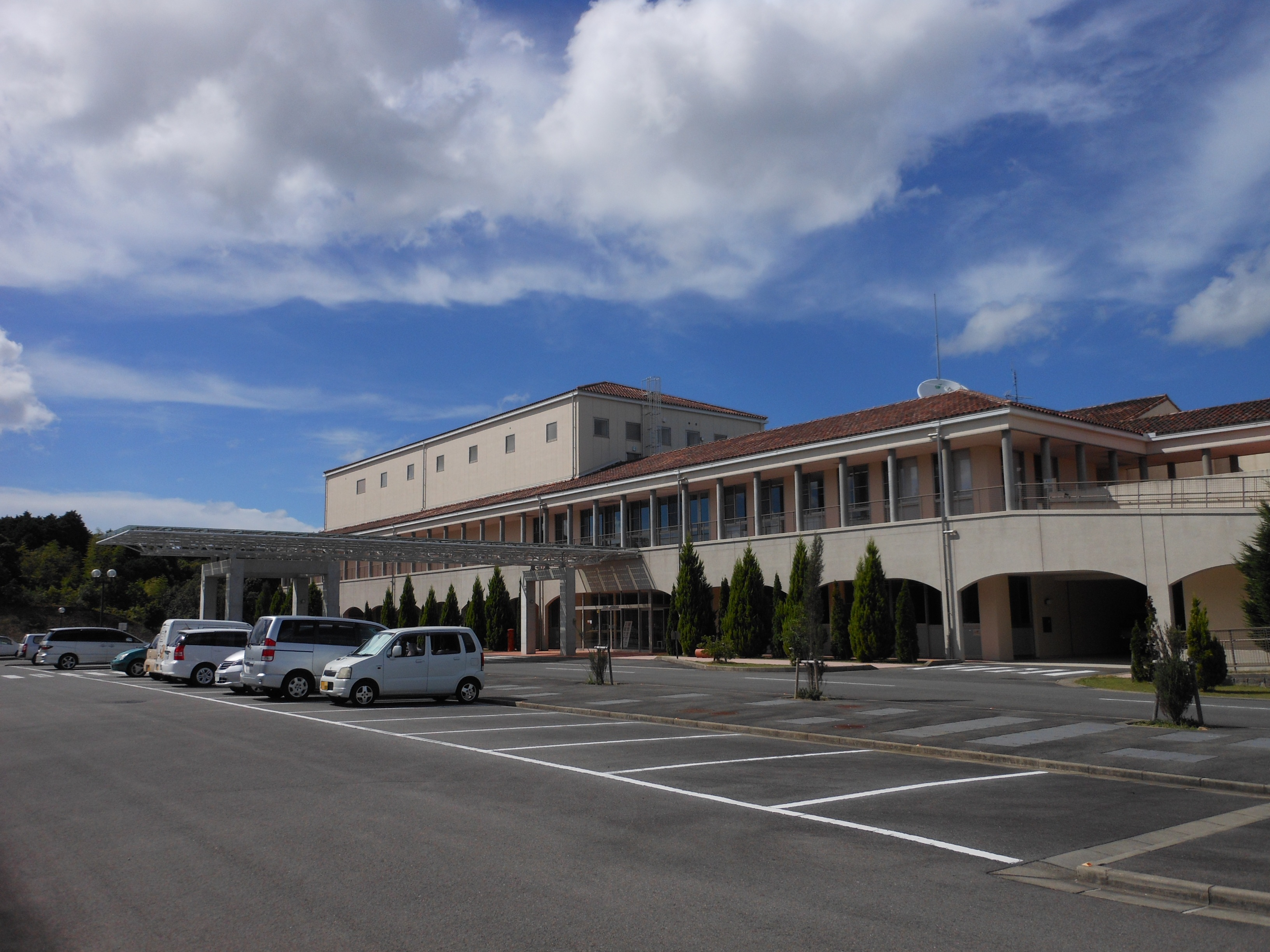 Shima City Hall Isobe Branch, Japan. This building has also Shima City Isobe Lifelong Learning Center, Shima City Museum of History and Folklore and Shima City Library Isobe Branch Library.